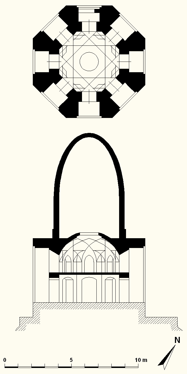 Falcons Dome Natanz